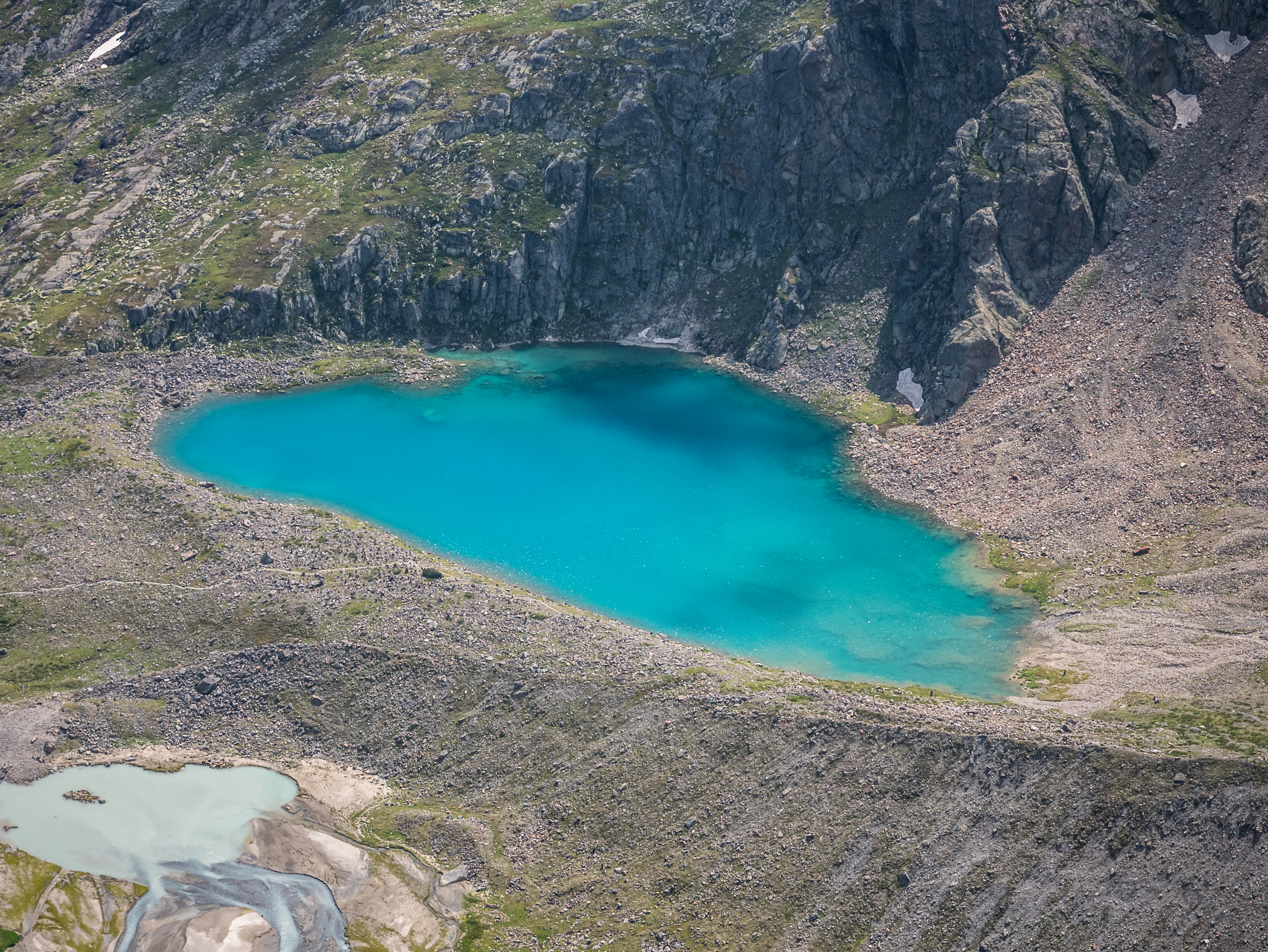 View over Blaue Lacke ("the blue lake") from Grosser Trögler. Stubai Valley, Tyrol, Austria